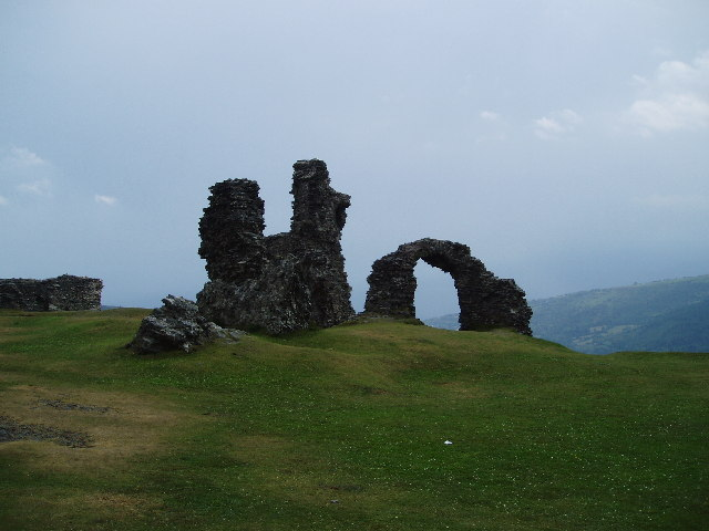 Dinas Bran. Looking west above Llangollen